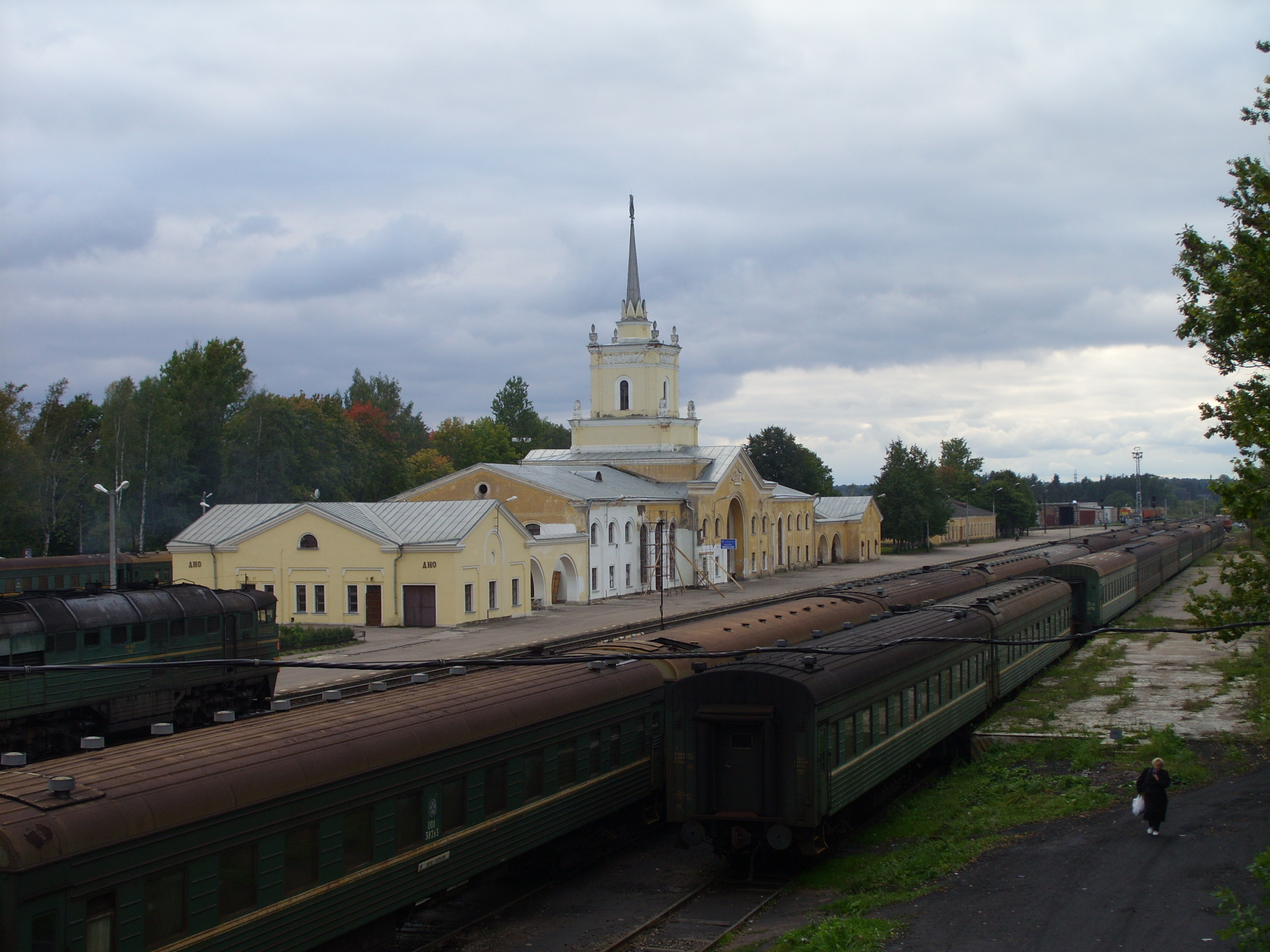 Dno Vokzal 2008